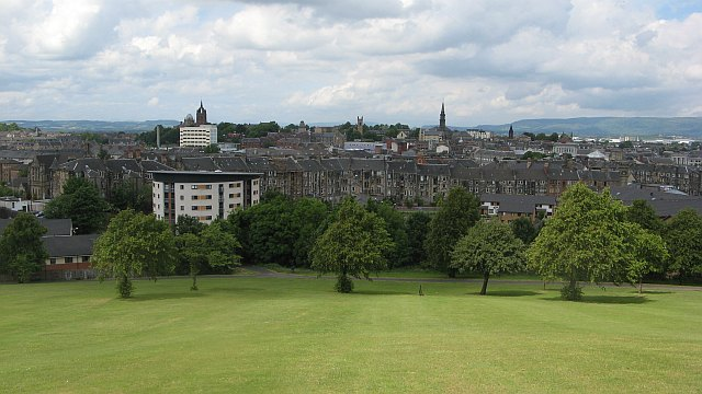 Paisley The city centre seen from Saucel Hill.